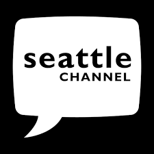 Seattle Channel logo.